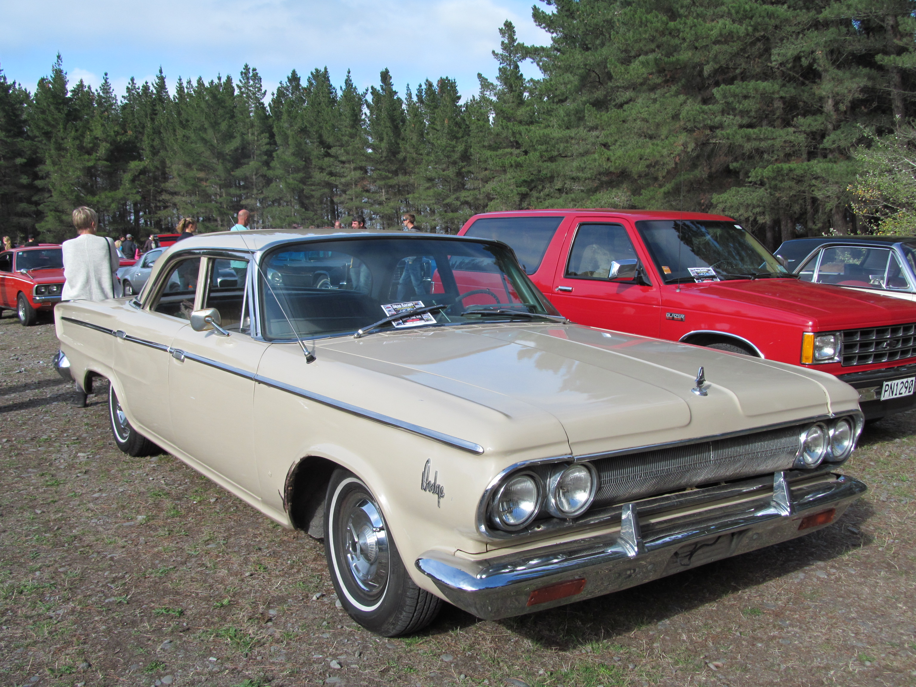 Looked to be a recent import at the time of the photo. This is a bit of a strange one with slight 50s esque tail fins yet a very mid 60s front fascia.